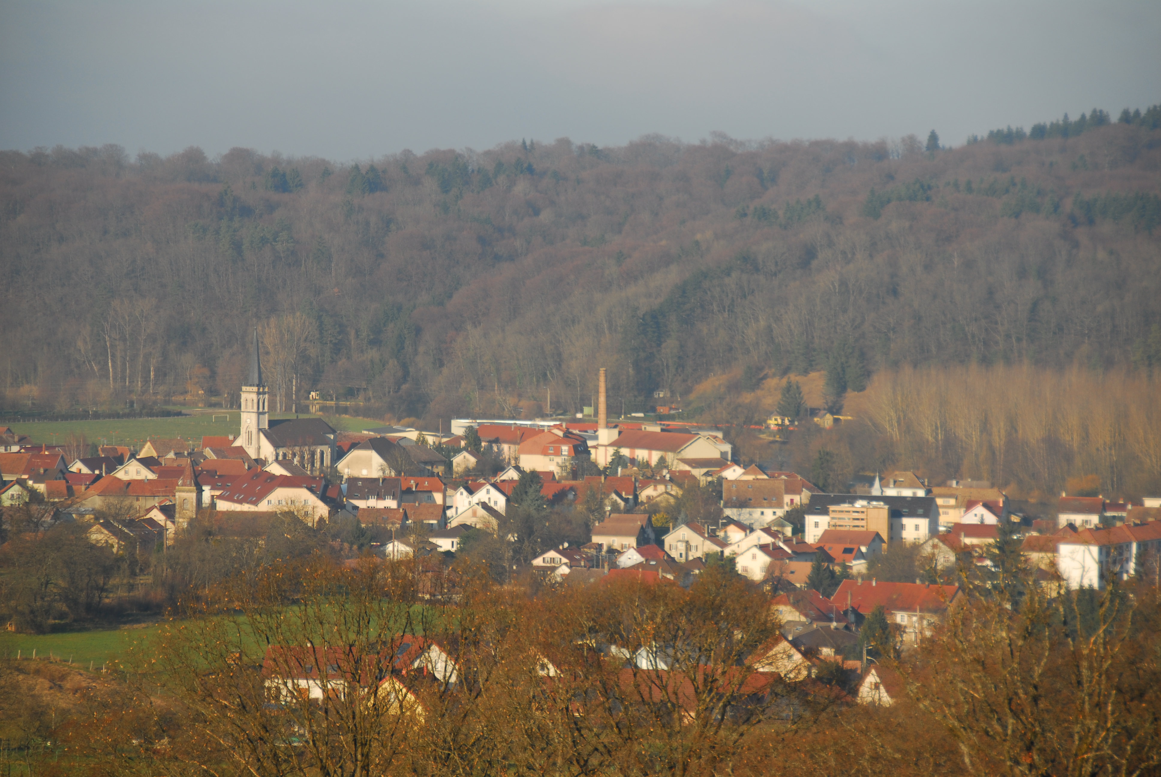 Mandeure — "Mandeure" district